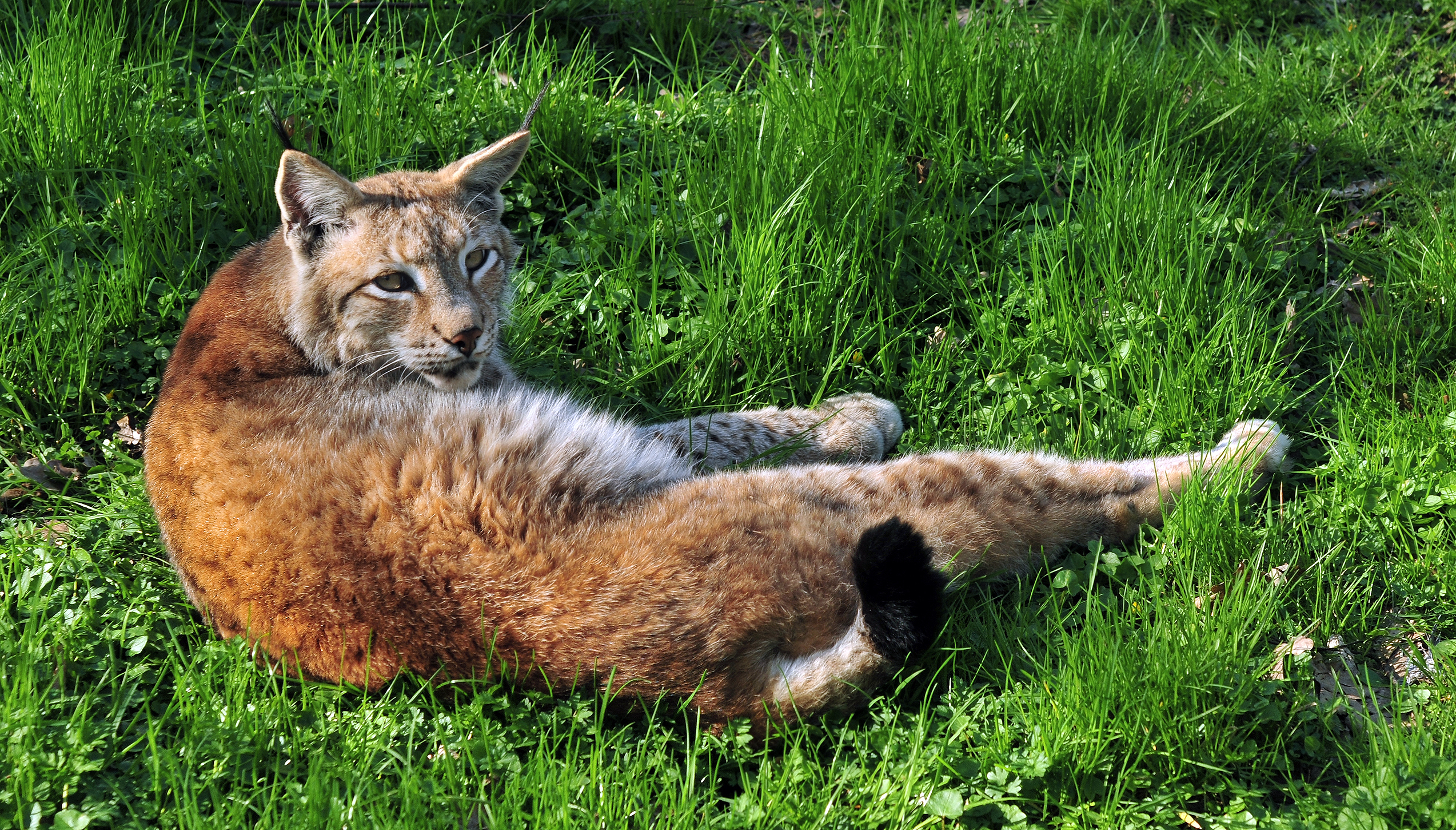 Eurasian Lynx in the Sababurg game park near Hofgeismar, district Kassel, Hesse, Germany.